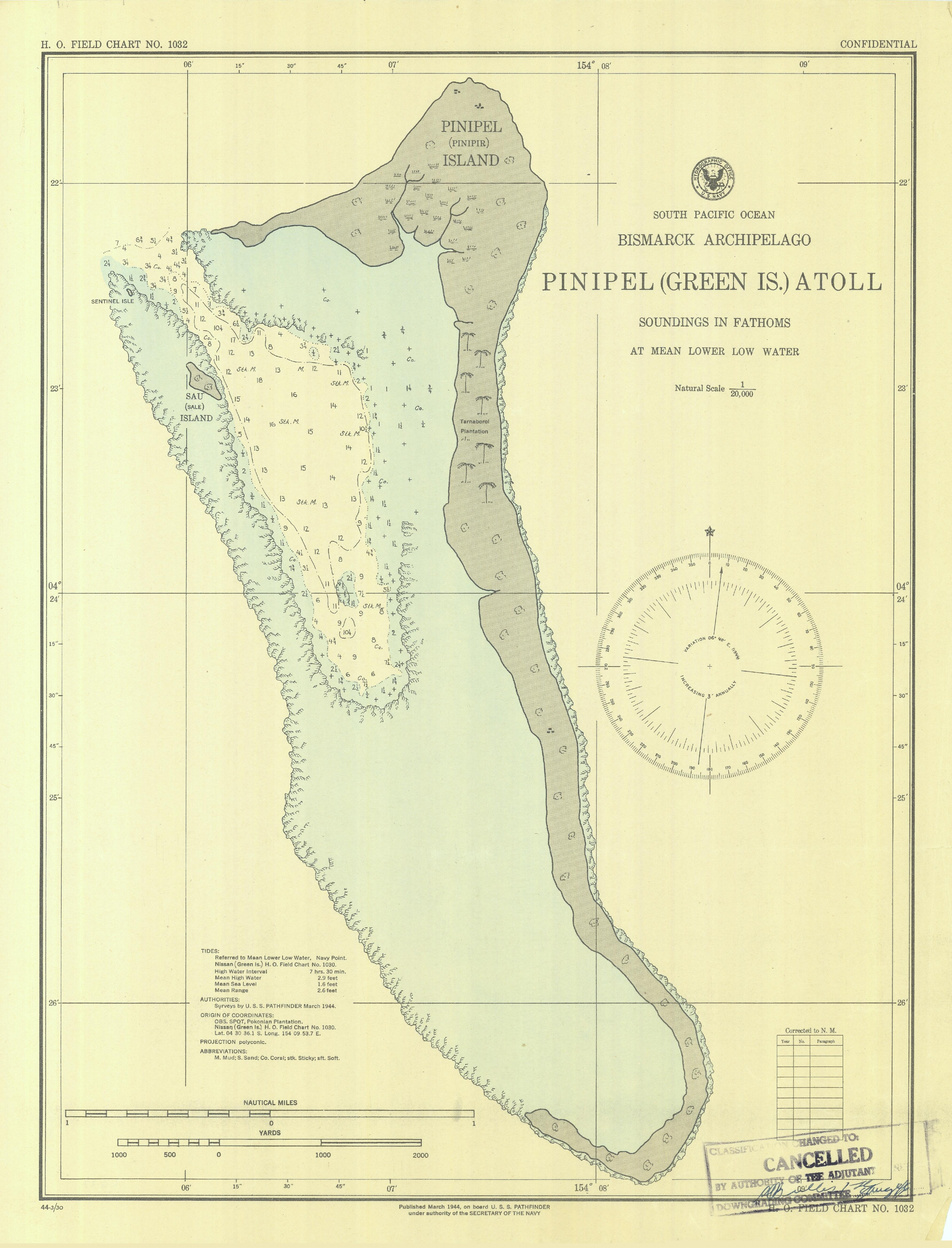 nautical chart of Pinipel Atoll, Green Islands, Bismarck Archipelago, Papua New Guinea